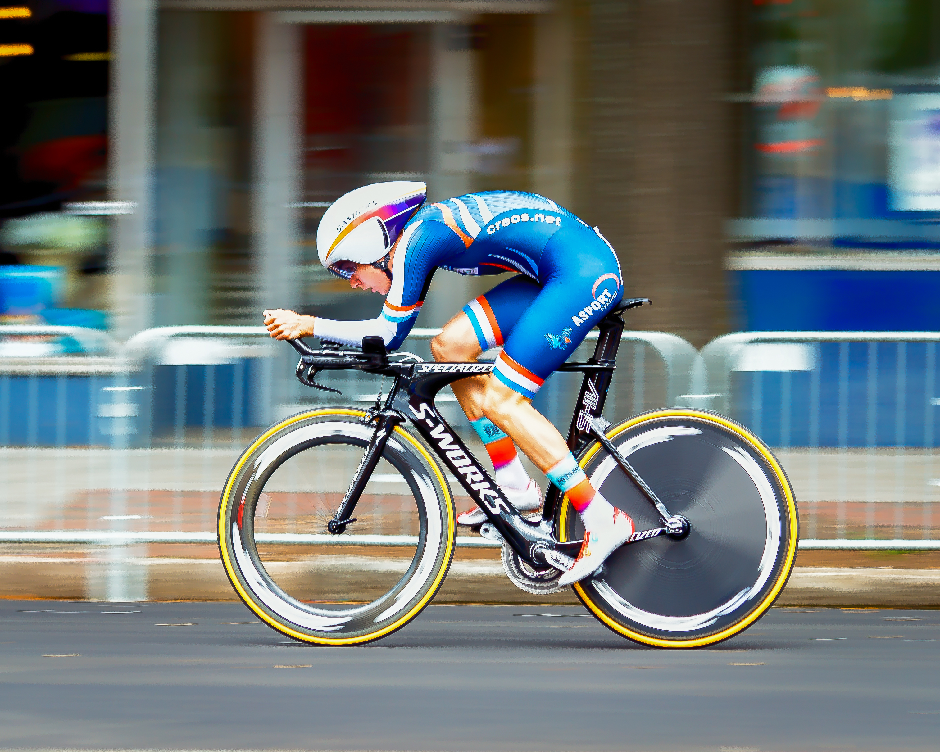 UCI Road World Championships 2015, Richmond, VA #UCI2015 - Women's Elite Time Trials 2015 UCI Road World Championships, in Richmond, United States